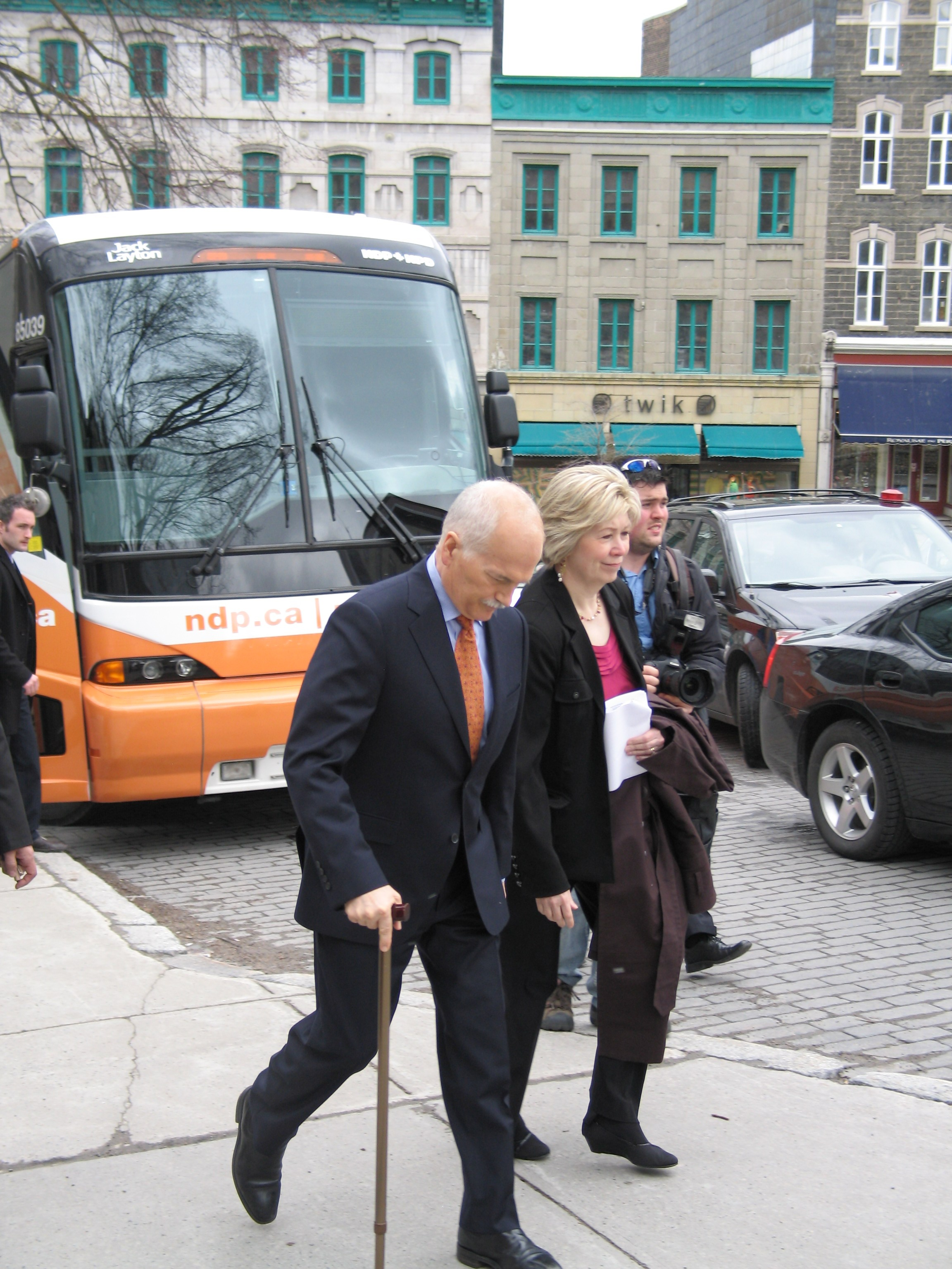 New Democratic Party leader Jack Layton leaves Quebec City Hall with chief of staff Anne McGrath during the Canadian federal election campaign of 2011.